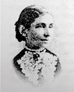 Martha Cartmell as a young woman ie before 1924